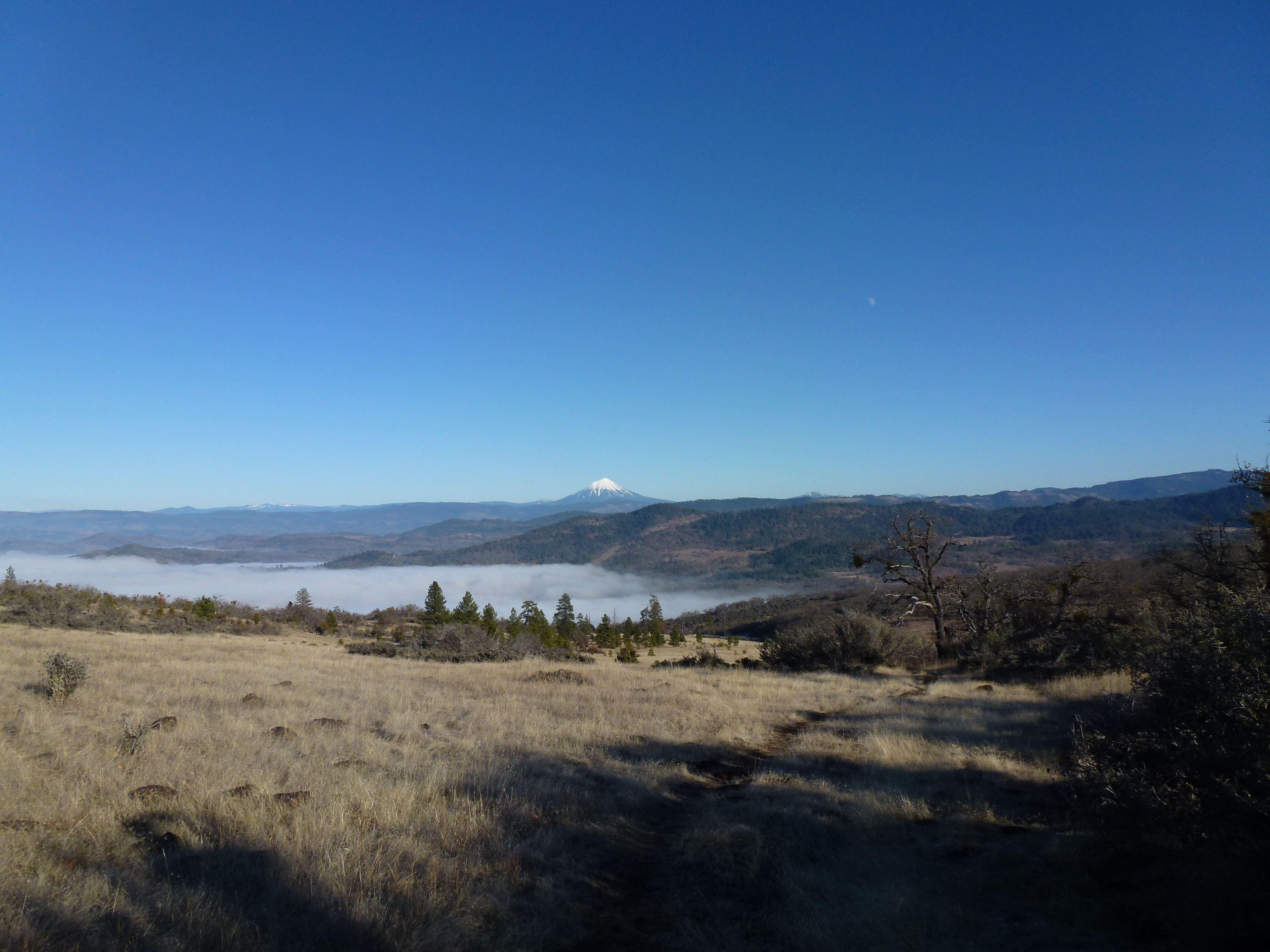 Looking east from Roxy Ann Peak towards Mount McLoughlin.